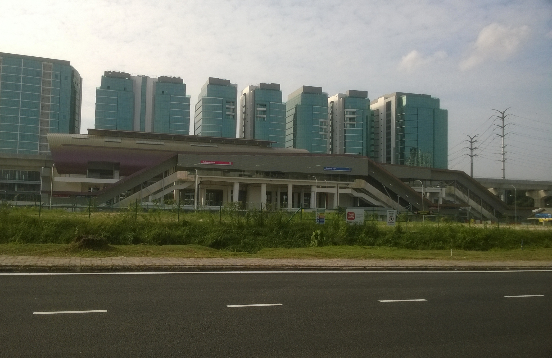 Subang Jaya station viewed from the outside.